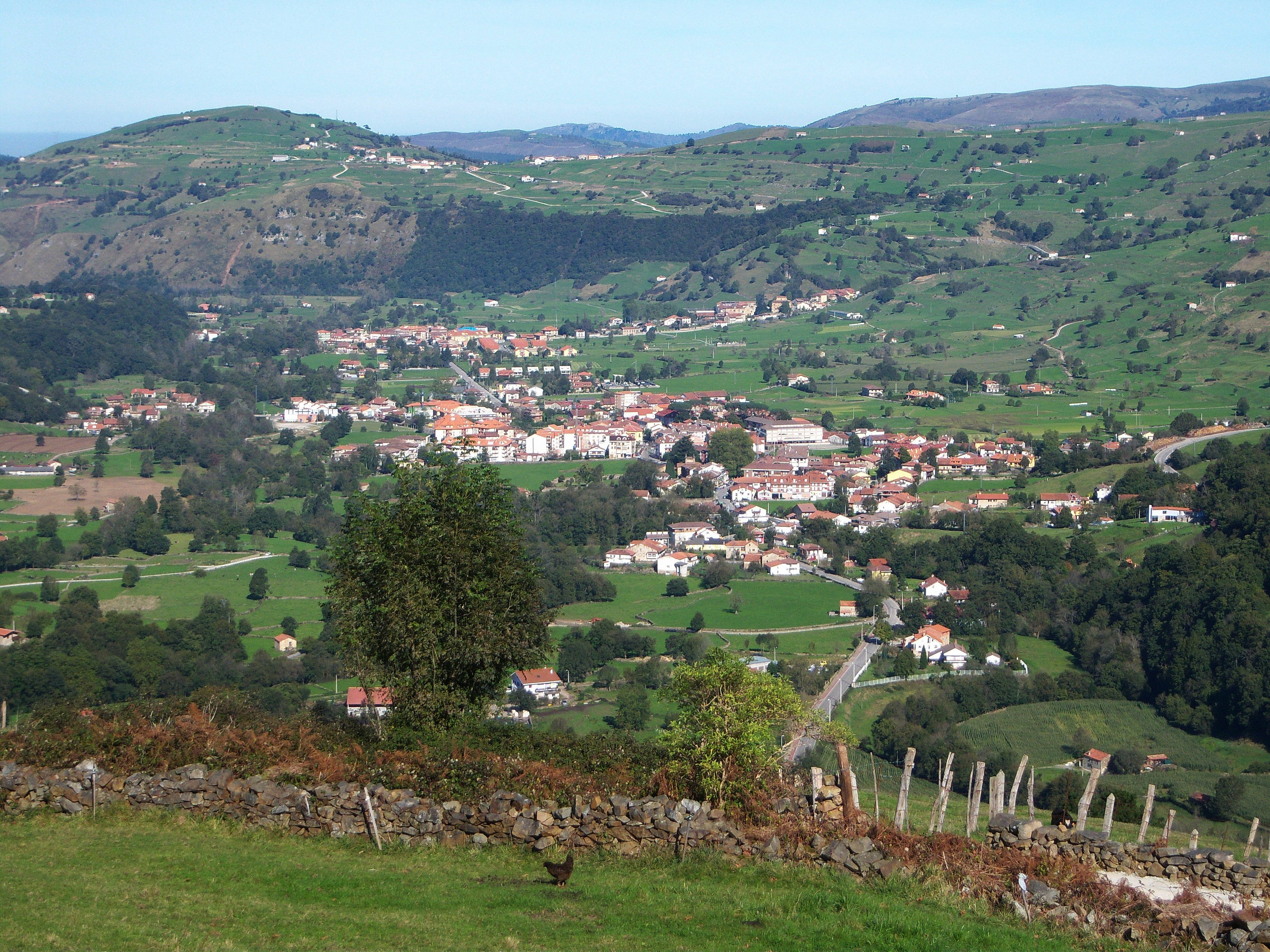 Selaya (Cantabria, Spain)